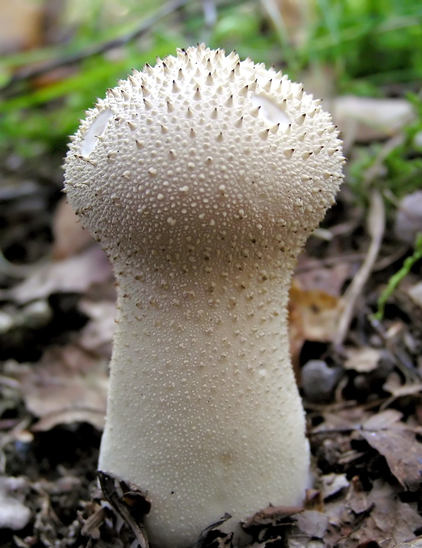 Lycoperdon perlatum, found in a mixed forest on sandy ground north Dorsten, Germany.